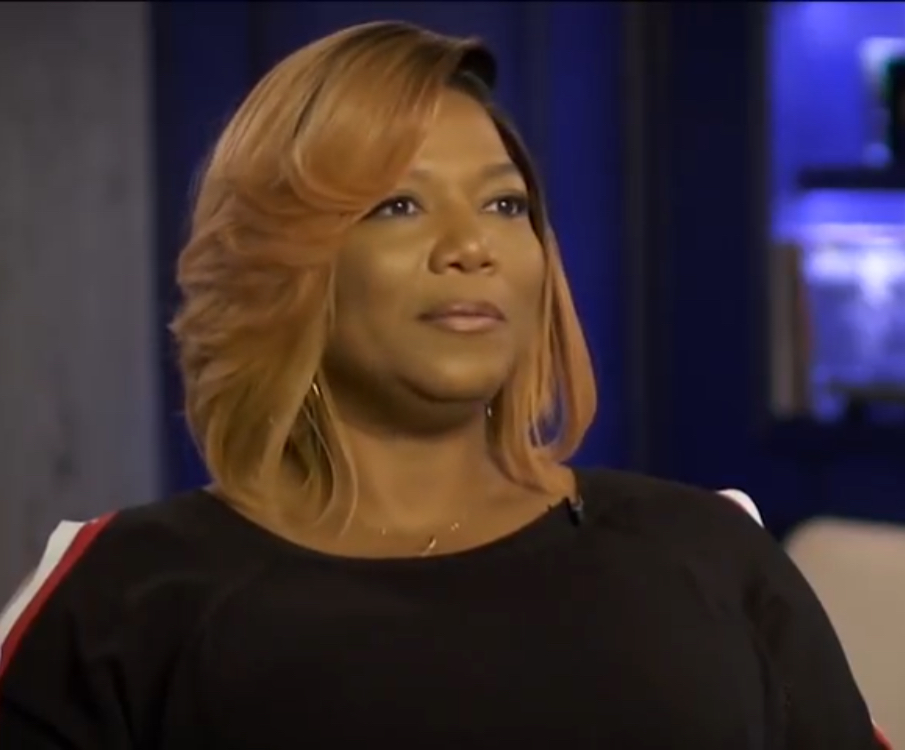 Queen Latifah in 2018